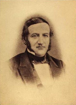 Danish industrialist and politician Meyer Herman(n) Bing (1807-1883)